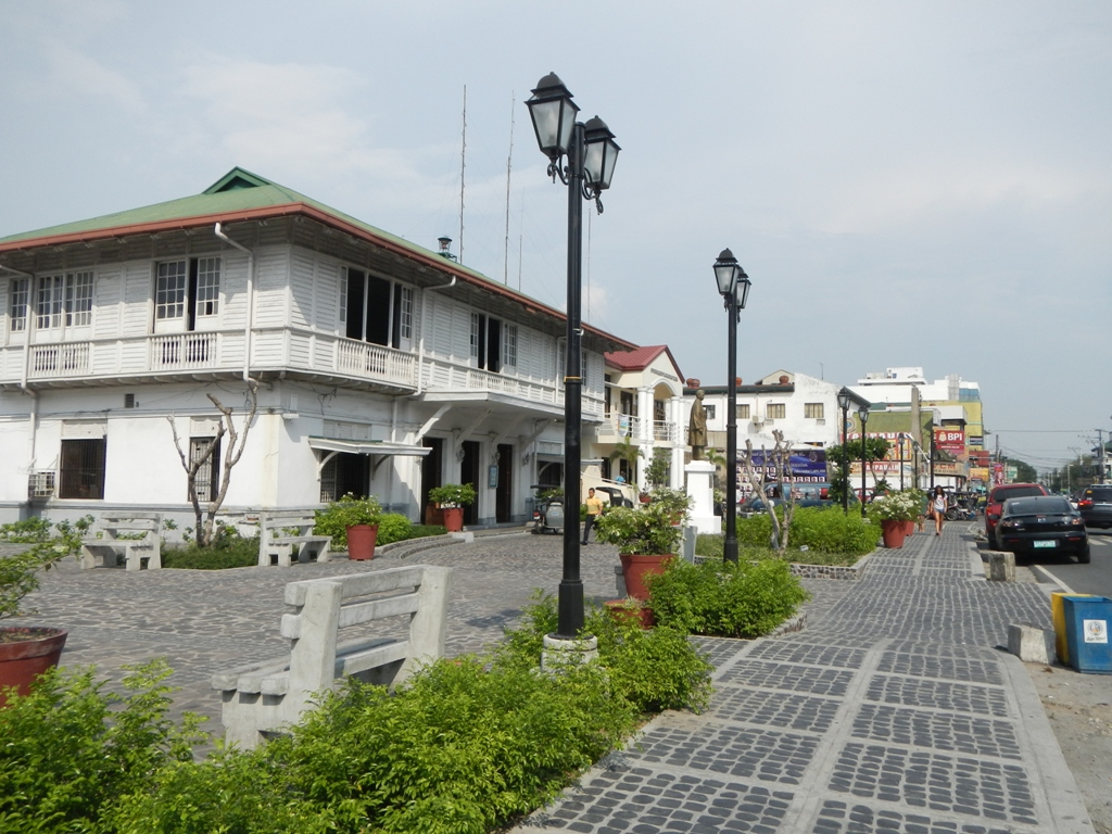 2015 Version of the almost Restored Museum of Angeles located in Barangay Santo Rosario (Poblacion), Angeles City, Pampanga.